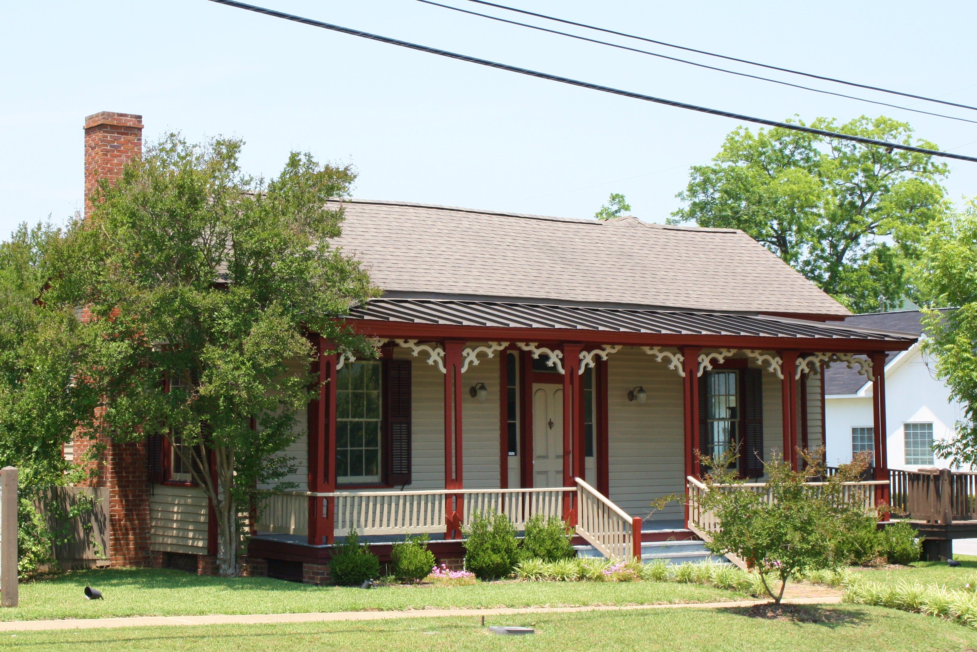 Laird Cottage in Demopolis, Alabama, United States. Built in 1870, it currently serves as the Geneva Mercer Museum and as the headquarters for the Marengo County Historical Society.